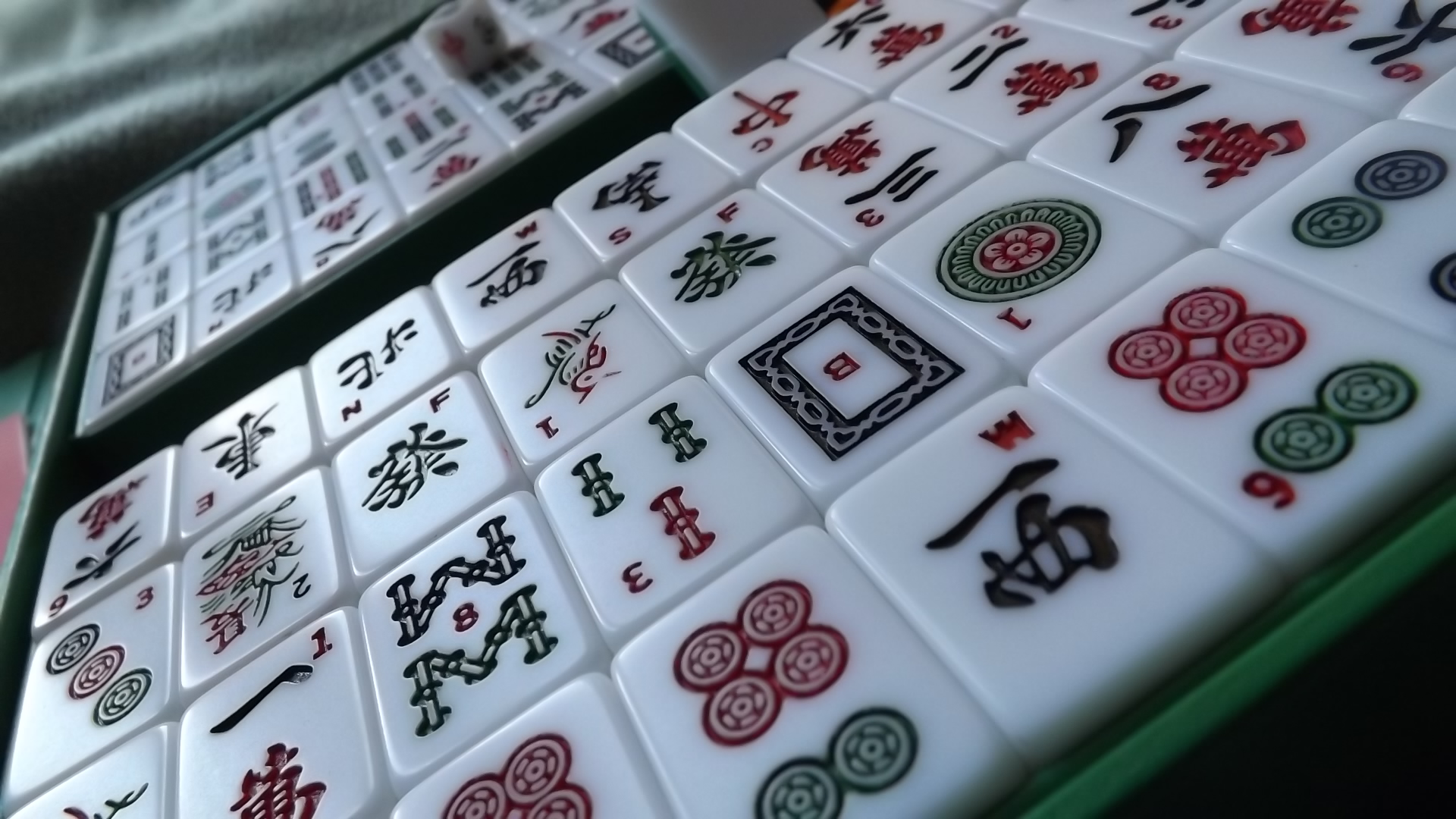 Mahjong tiles on angle